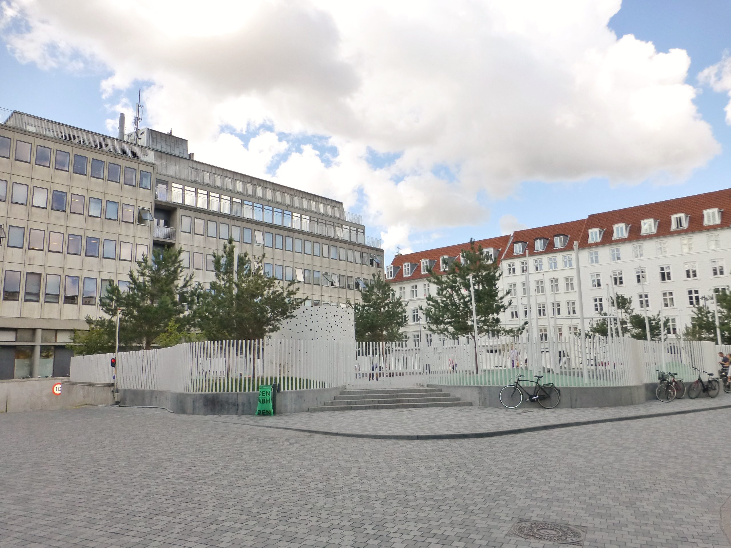 The square Hauser Plads in Indre By in Copenhagen.